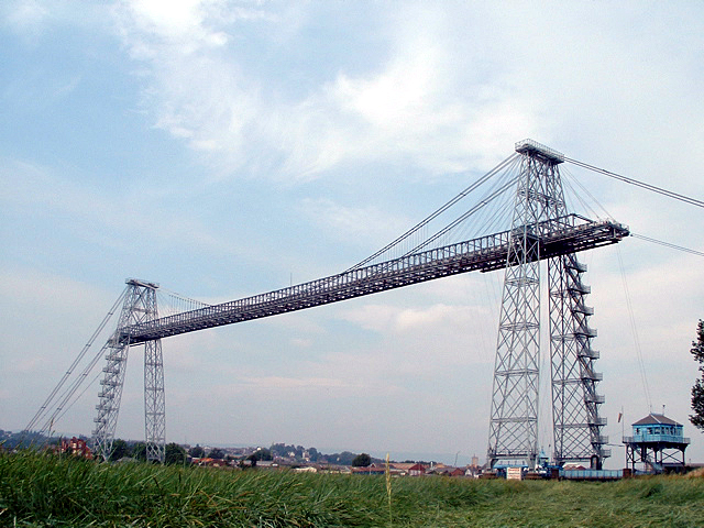 Newport Transporter Bridge seen from the east bank, en:17 August en:2002. Joe D (t) 14:47, 29 August 2006 (UTC): Fiddled with levels to correct muddy colours Unsharp mask 50% 1px to make the details stand out